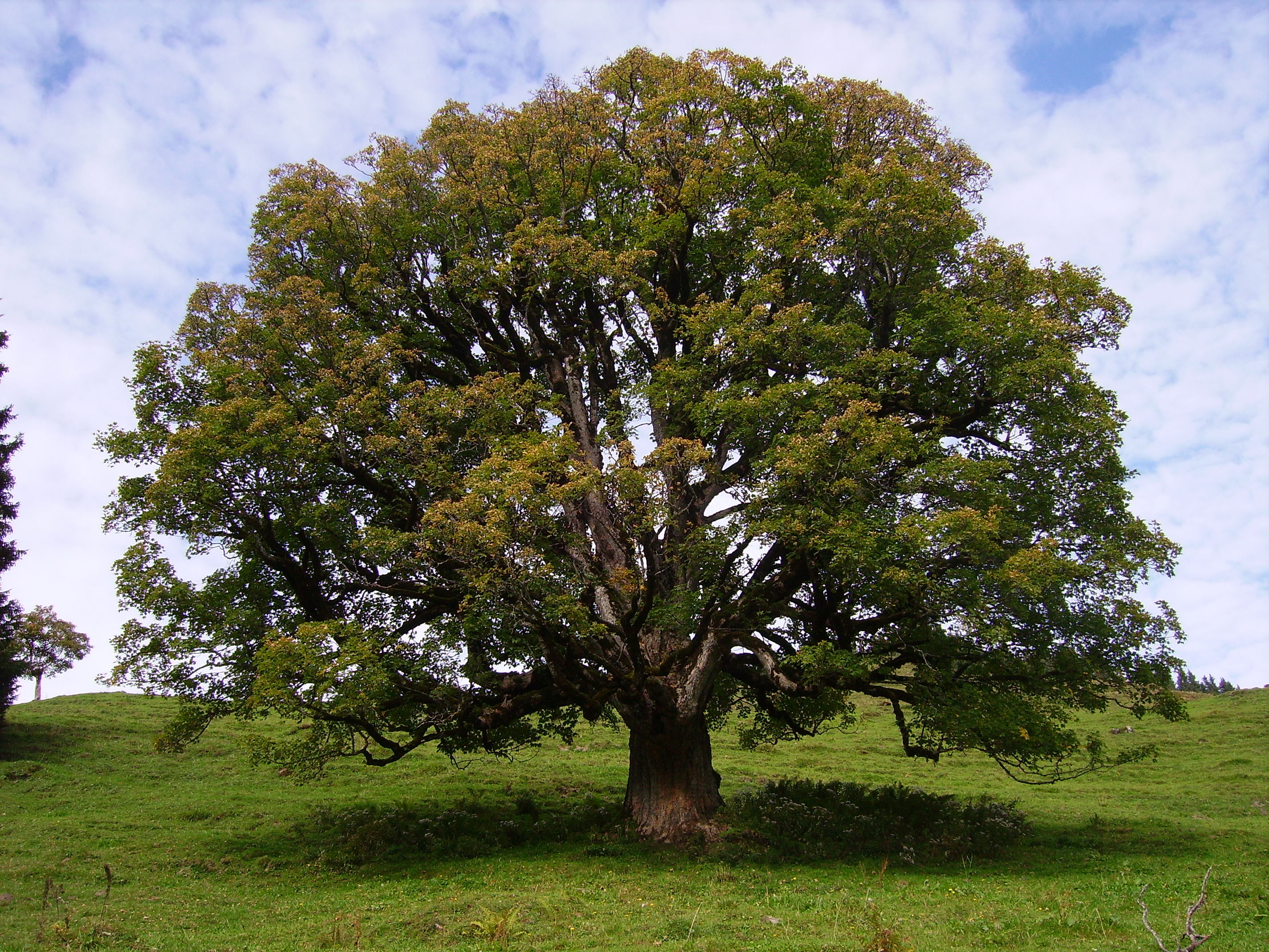 Acer pseudoplatanus (Sapindaceae); Chaltenbrunnen, Canton Bern, Switzerland